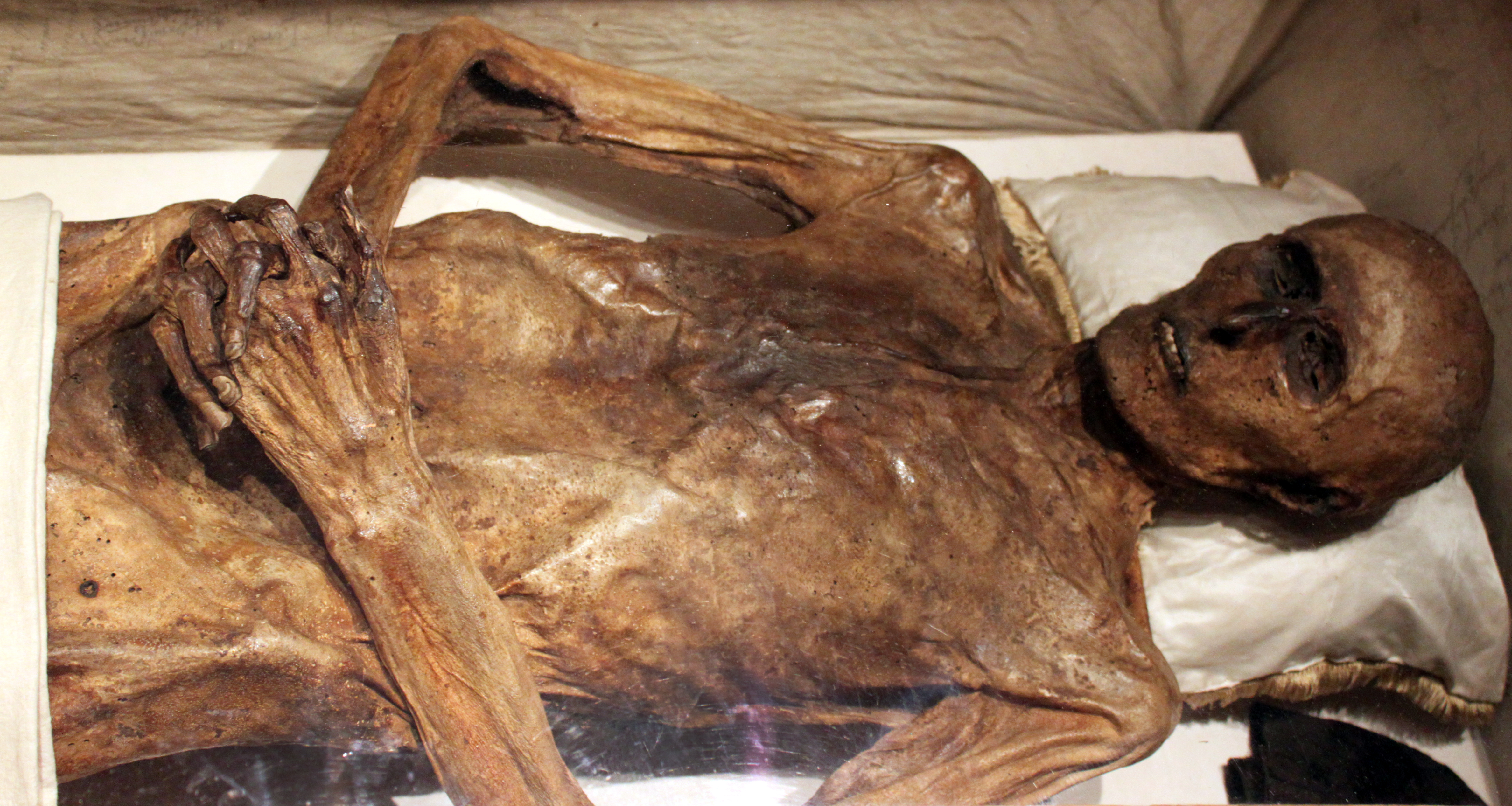 Mummy of Christian Friedrich von Kahlbutz in Kampehl, Brandenburg, Germany